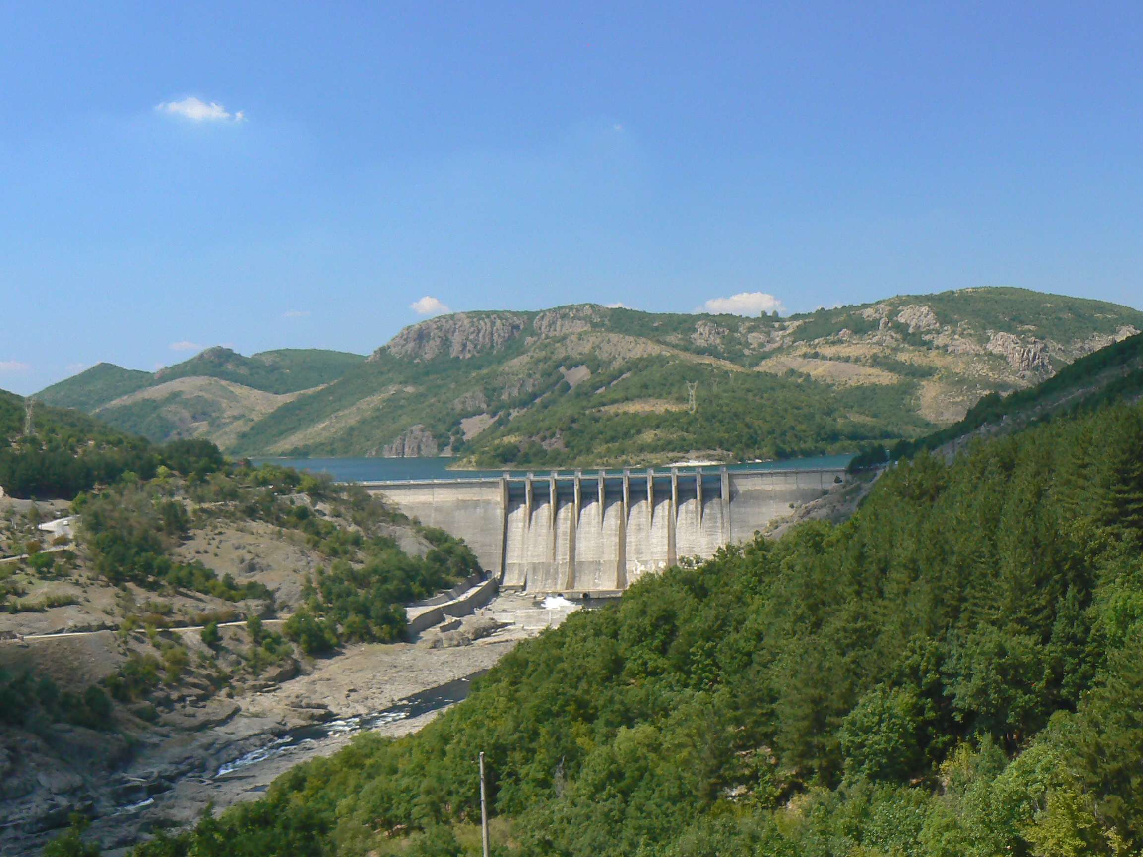 Dam Studen Kladenetz on river Arda, Rhodopes, Bulgaria